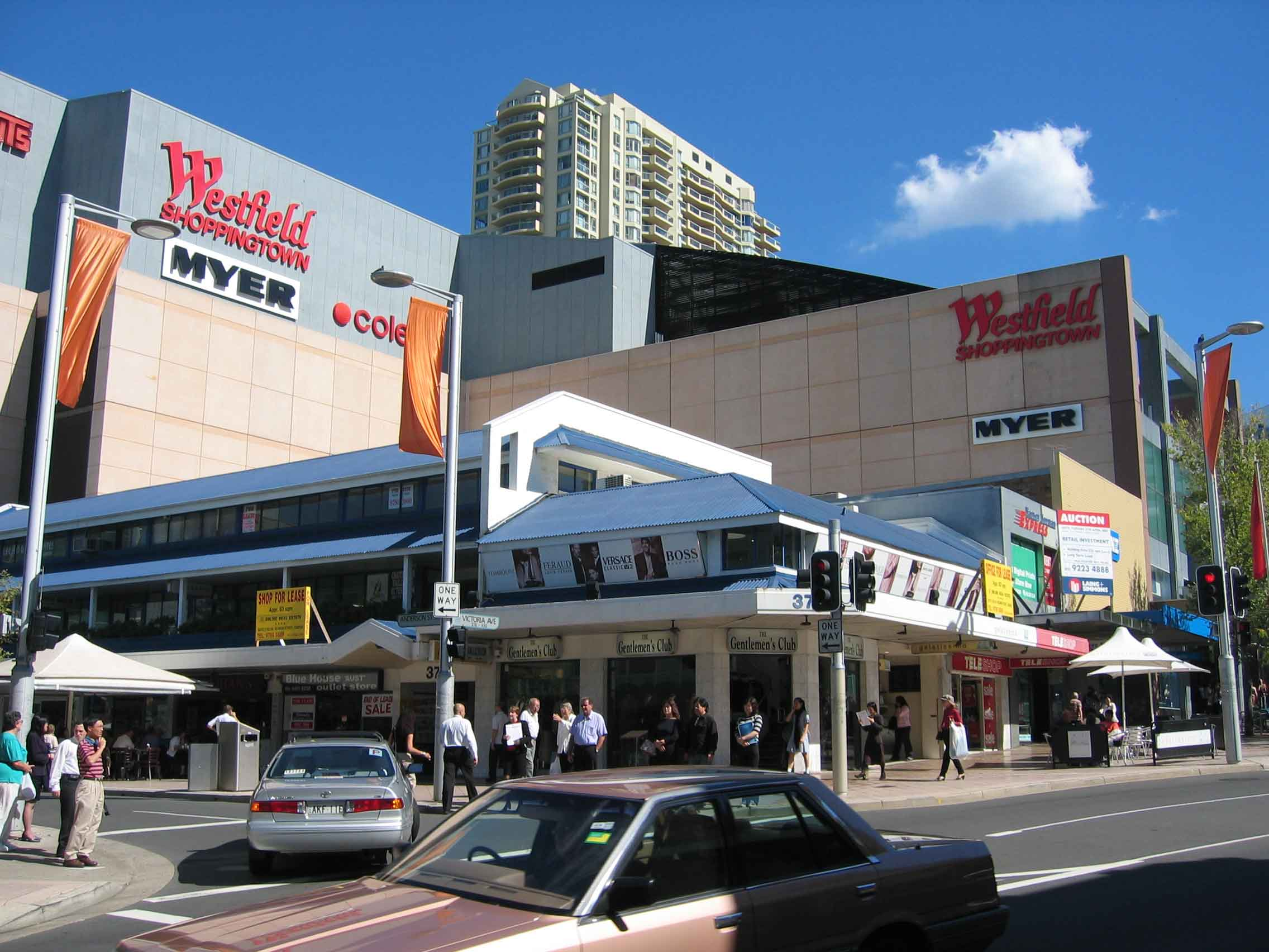 Shops in Chatswood are towered over by the large Westfield Shopping Center, which are looked upon by the high residential towers located around Chatswood. Corner of Victoria Avenue and Anderson Street, facing south. Taken 2005-04-06.